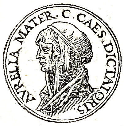 Aurelia Cotta (120 BC-54 BC) was the mother of dictator Gaius Julius Caesar.